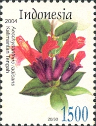 Stamps of Indonesia